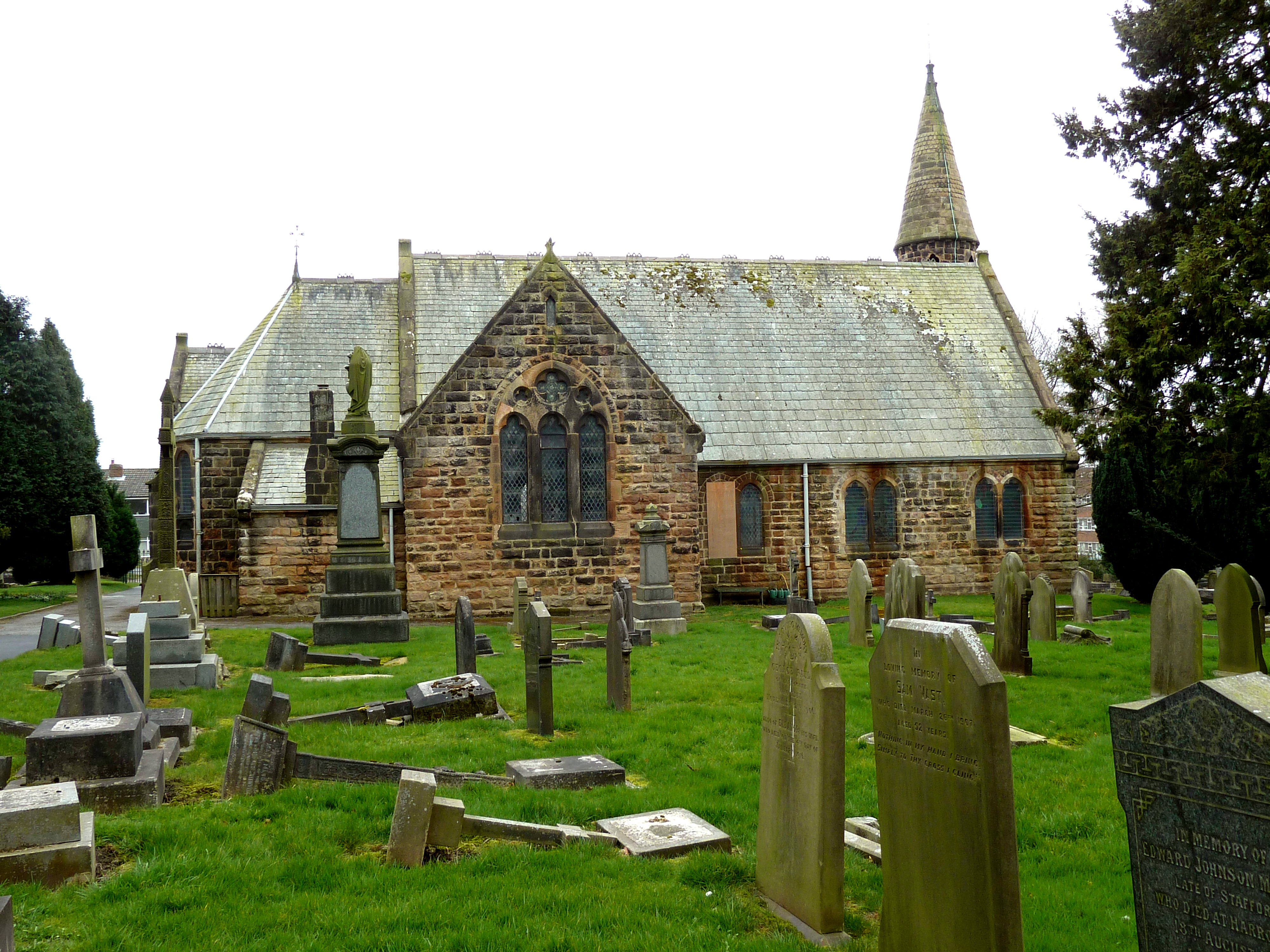 Church of All Saints, Otley Road, Harlow Hill, Harrogate, North Yorkshire, England. It is the cemetery chapel in Harlow Hill Cemetery, and was designed in 1870 by architects Isaac Thomas Shutt and Alfred Hill Thompson.